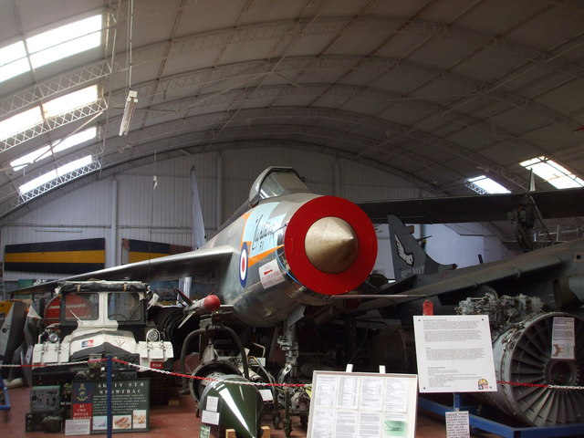 Large jet in the main hangar. Seen at Flixton air museum.